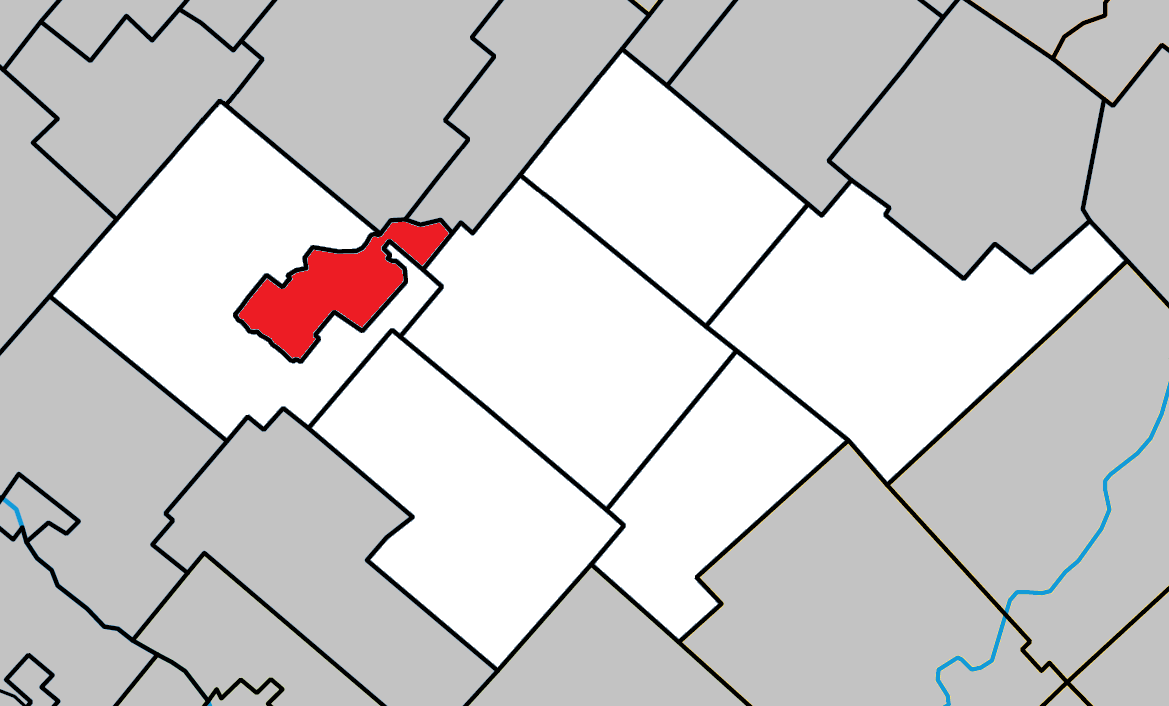 Location of Asbestos, Quebec within Les Sources Regional County Municipality.